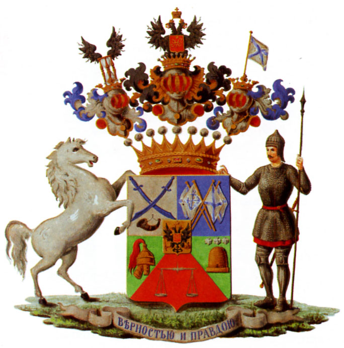 Coat of arms of the Count of Mordvinov family.